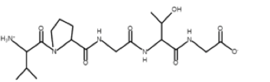 The above picture shows an example of an ELP monomeric unit, with the X residue here as threonine.